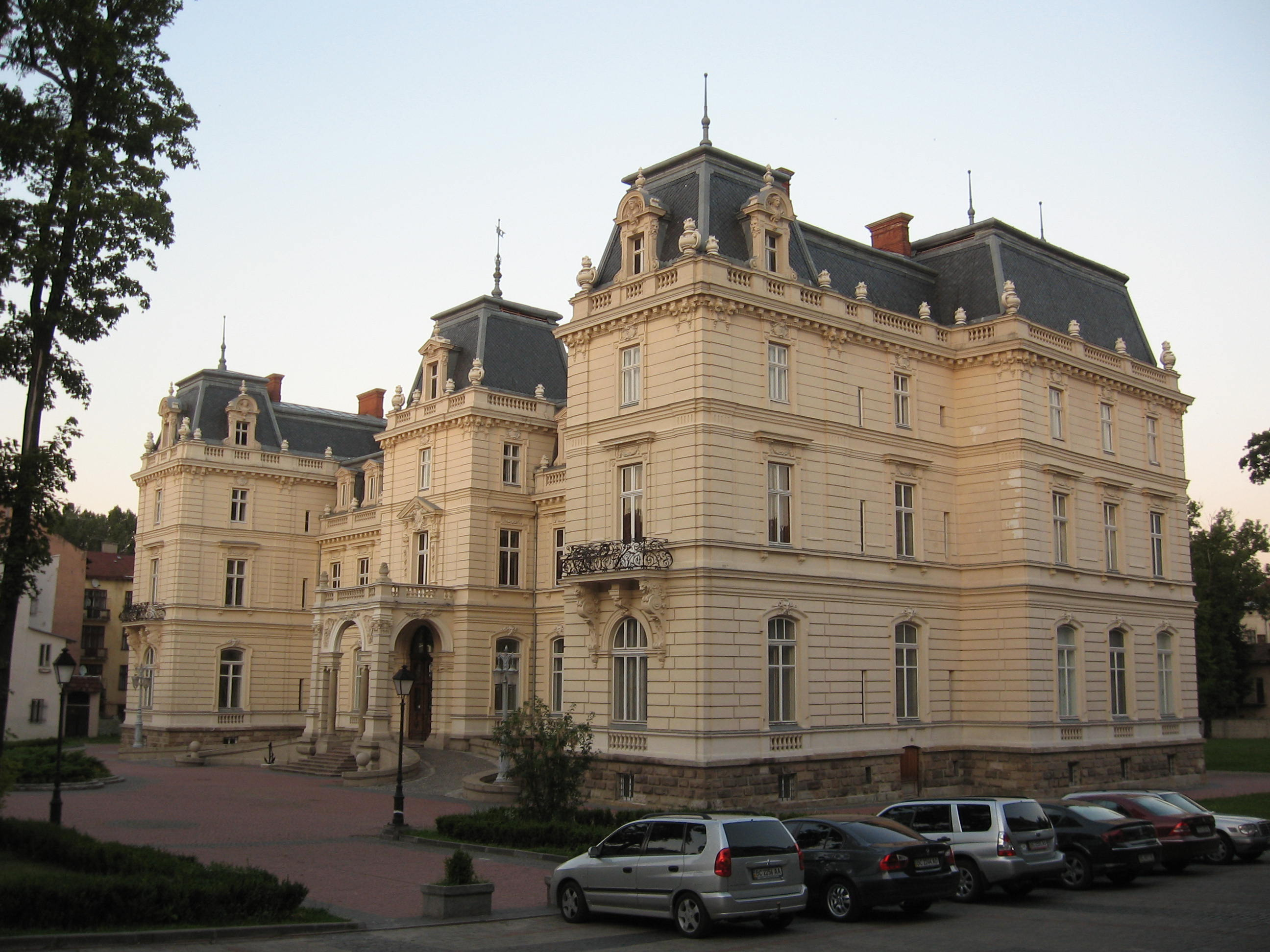 The Neo-Renaissance and Second Empire styled Potocki Palace, Lviv, in Ukraine.